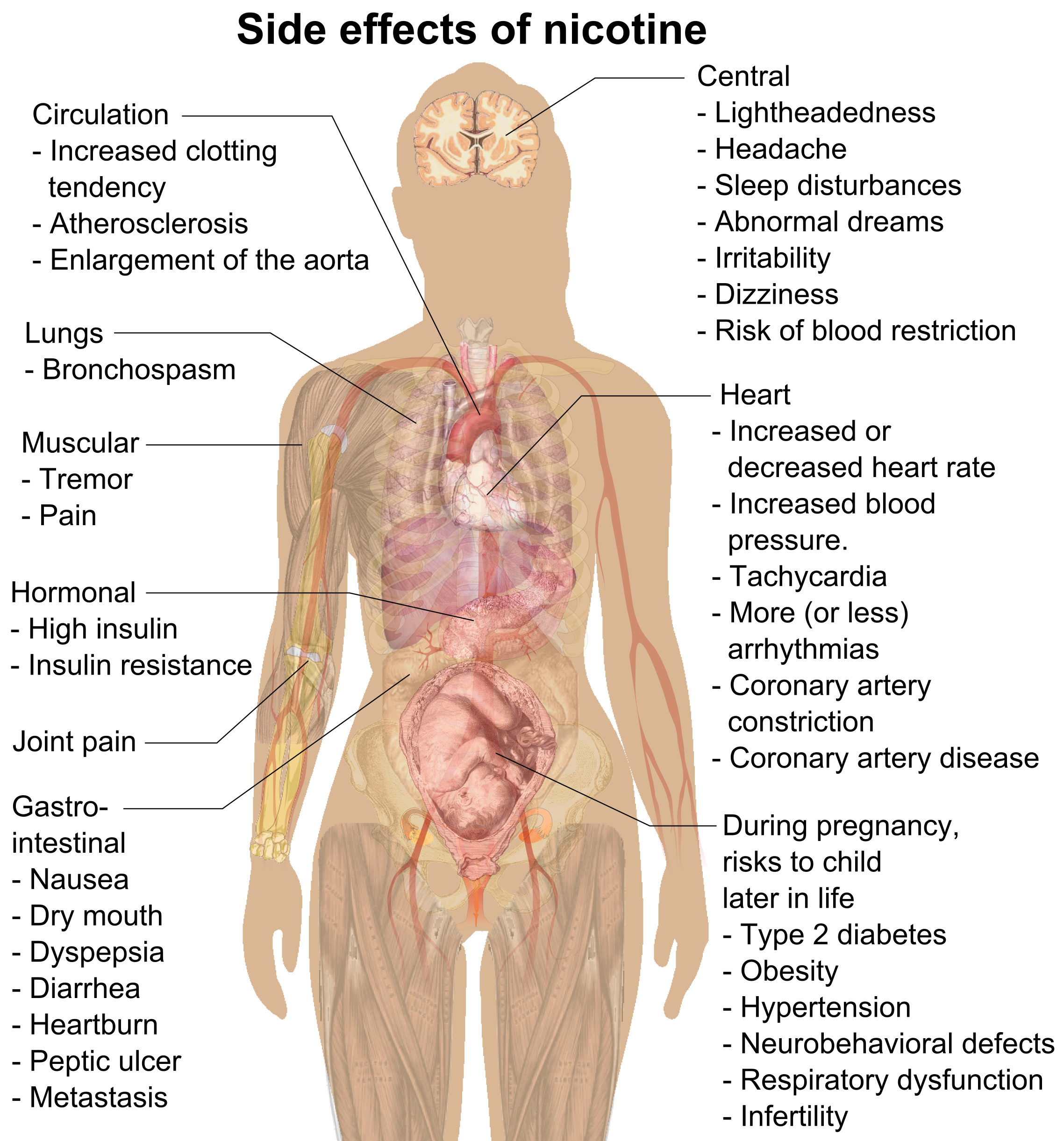 Main side effects of nicotine (See Wikipedia:Nicotine). To discuss image, please see Talk:Human body diagrams List format Circulation: Increased clotting tendency[1] Atherosclerosis[2] Enlargement of the aorta[2] Lungs: Bronchospasm[1] Muscular: Tremor[1] Pain[1] Gastrointestinal: Nausea[1] Dry mouth[1] Dyspepsia[1] Diarrhea[1] Heartburn[1] Peptic ulcer[2] Metastasis[3] Joint pain[1] Central: Lightheadedness[1] Headache[1] Sleep disturbances[1] Abnormal dreams[1] Irritability[1] Dizziness[1] Risk of blood restriction[2] Heart: Increased or decreased heart rate[1] Increased blood pressure[1] Tachycardia[1] More (or less) arrhythmias[1] Coronary artery constriction[1] Coronary artery disease[2] Hormonal: High insulin[1] Insulin resistance[1] During pregnancy, risks to child later in life: Type 2 diabetes[2] Obesity[2] Hypertension[2] Neurobehavioral defects[2] Respiratory dysfunction[2] Infertility[2] Excluded are symptoms specific for a certain route of administration of nicotine, where other factors than the nicotine itself may be responsible. Excluded are also some very rare symptoms, and symptoms that are only seen together with another, relatively rare, condition. References ↑ a b c d e f g h i j k l m n o p q r s t u v w Nicotine Side Effects. . Retrieved on 2009. ↑ a b c d e f g h i j k (2014). "Electronic Cigarettes. A Position Statement of the Forum of International Respiratory Societies". American Journal of Respiratory and Critical Care Medicine 190 (6): 611–618. PMID 25006874. ISSN 1073-449X. ↑ (2014). "Nicotine-Mediated Cell Proliferation and Tumor Progression in Smoking-Related Cancers". Molecular Cancer Research 12 (1): 14–23. PMID 24398389. PMC: 3915512. ISSN 1541-7786.